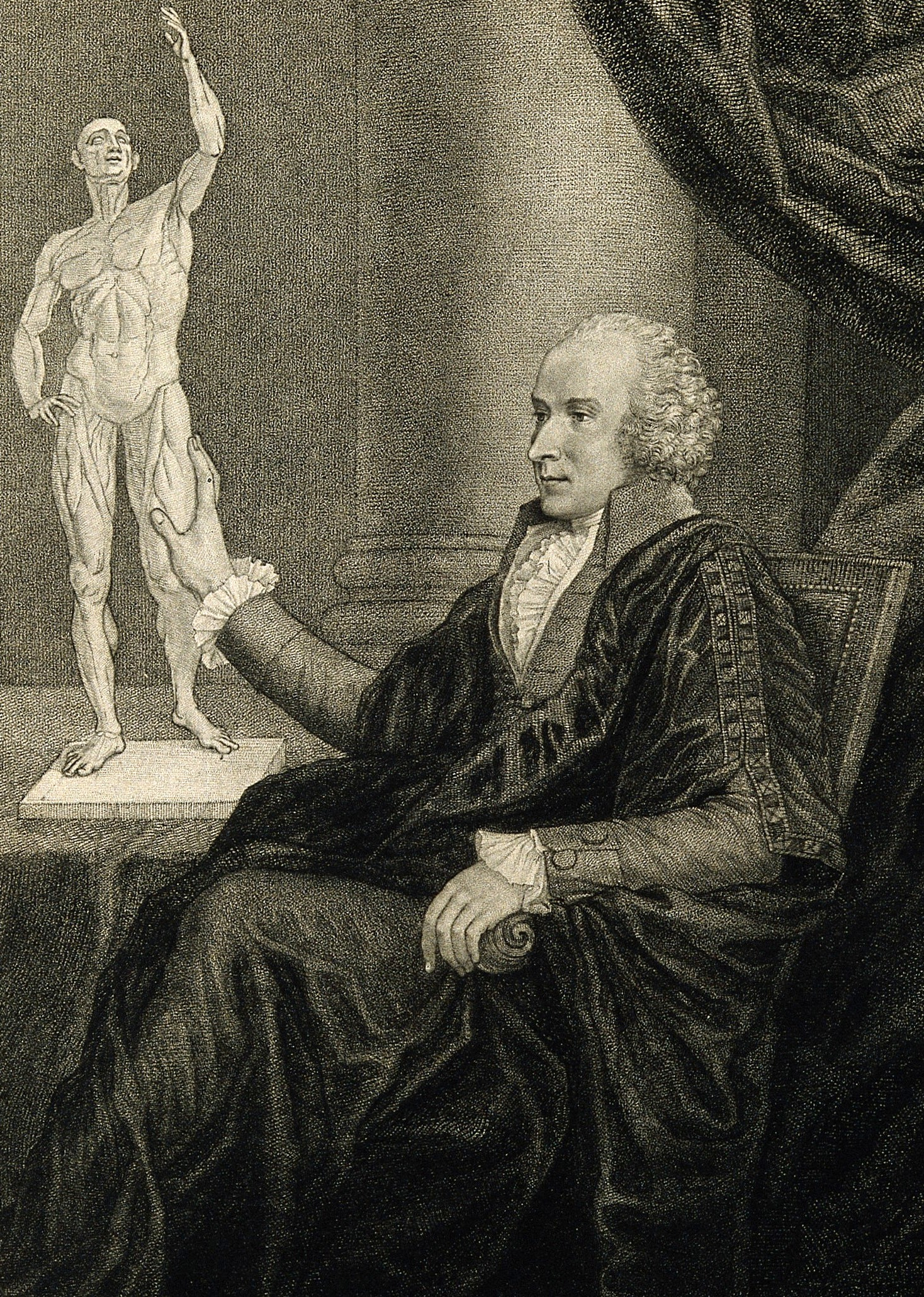 Portrait of Busick Harwood (1745?–1814), English physician.